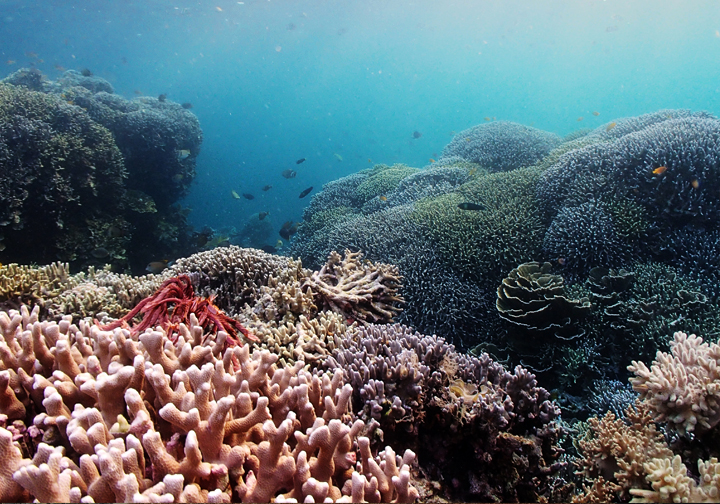 Tonggo point in front of Pescadores Seaview Suites, Basdiot Moalboal